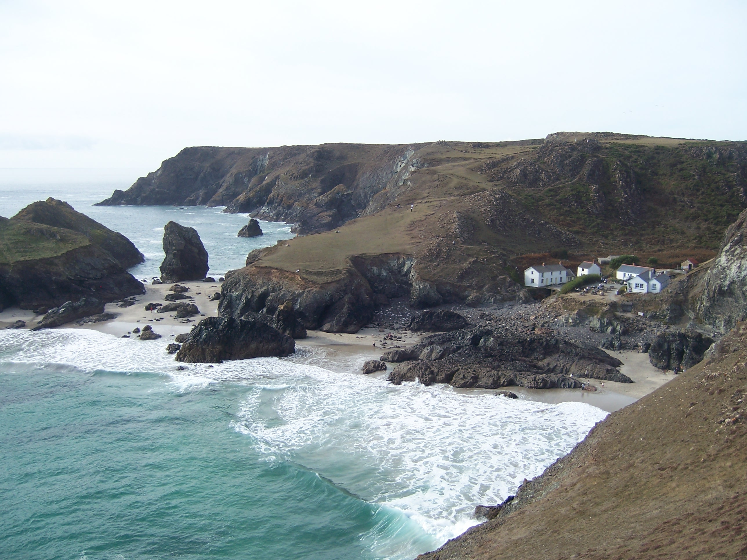 Kynance Cove, 2006. Thom Alsop assures you that the photo belongs to the uploader. He is happy for you to use the photo for your own purposes.